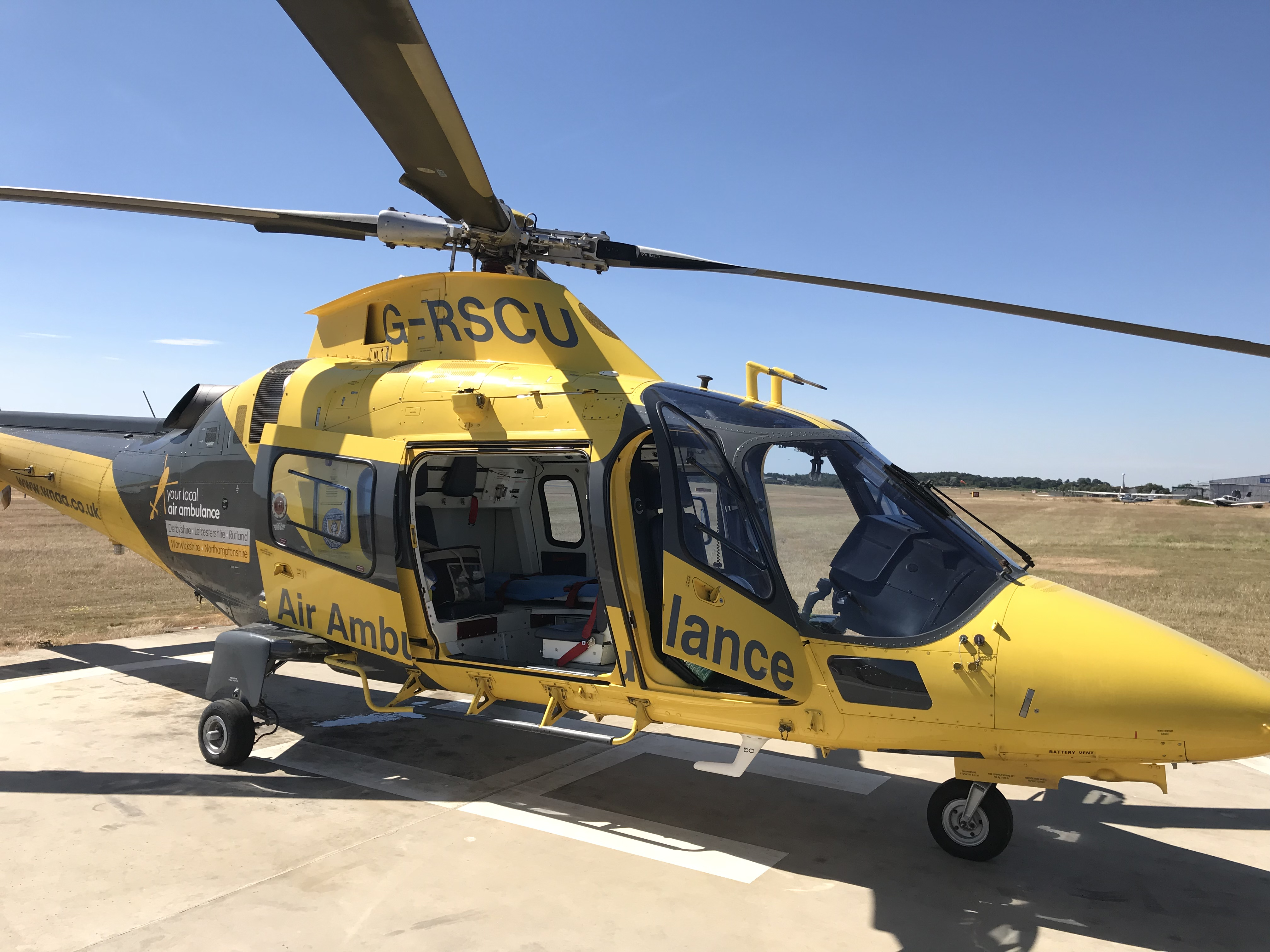 G-RSCU (Warwickshire & Northamptonshire Air Ambulance) at Coventry Airport